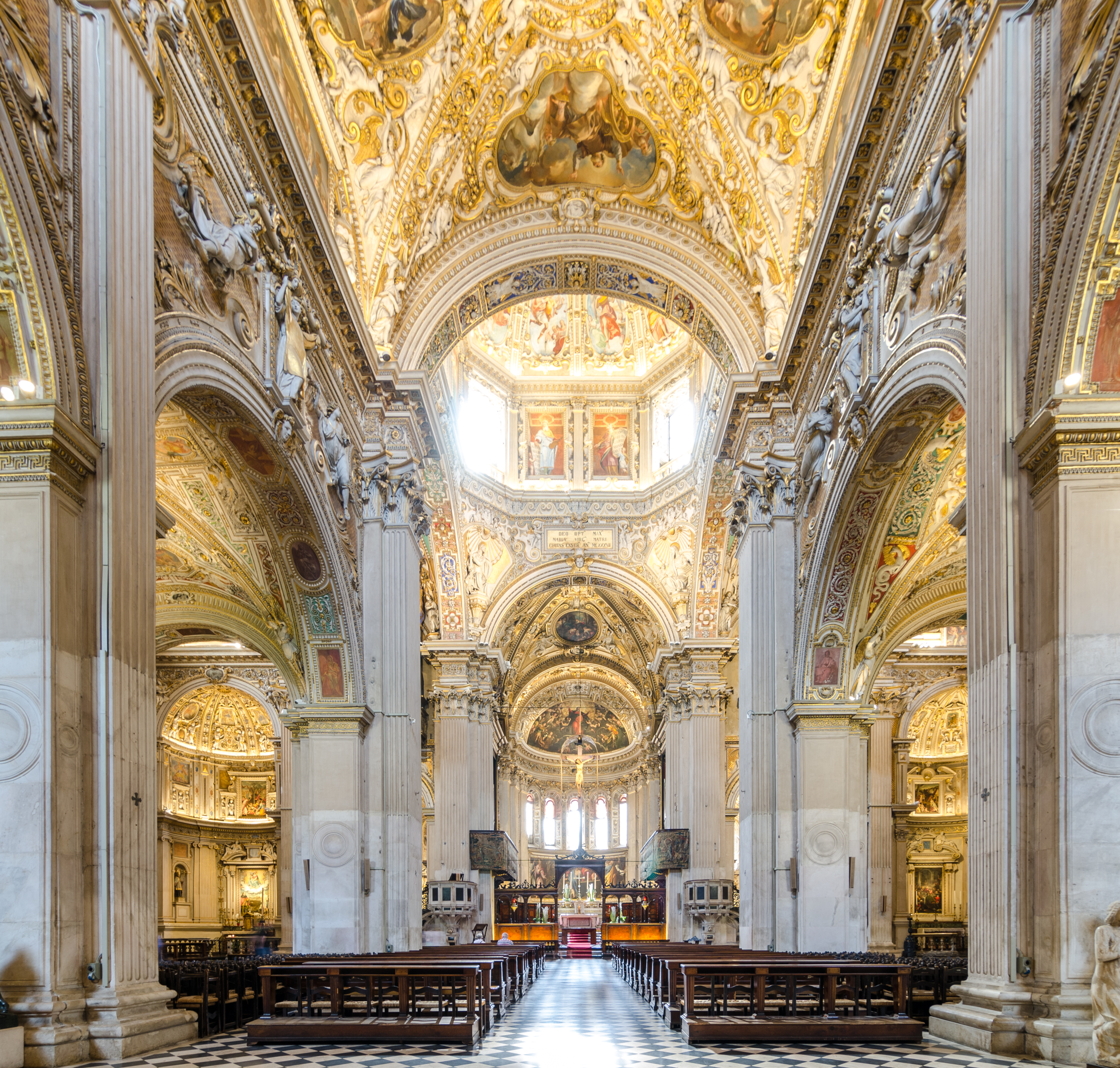 Bergamo (Lombardy, Italy) – upper city – Basilica of Santa Maria Maggiore – interior view trough the nave